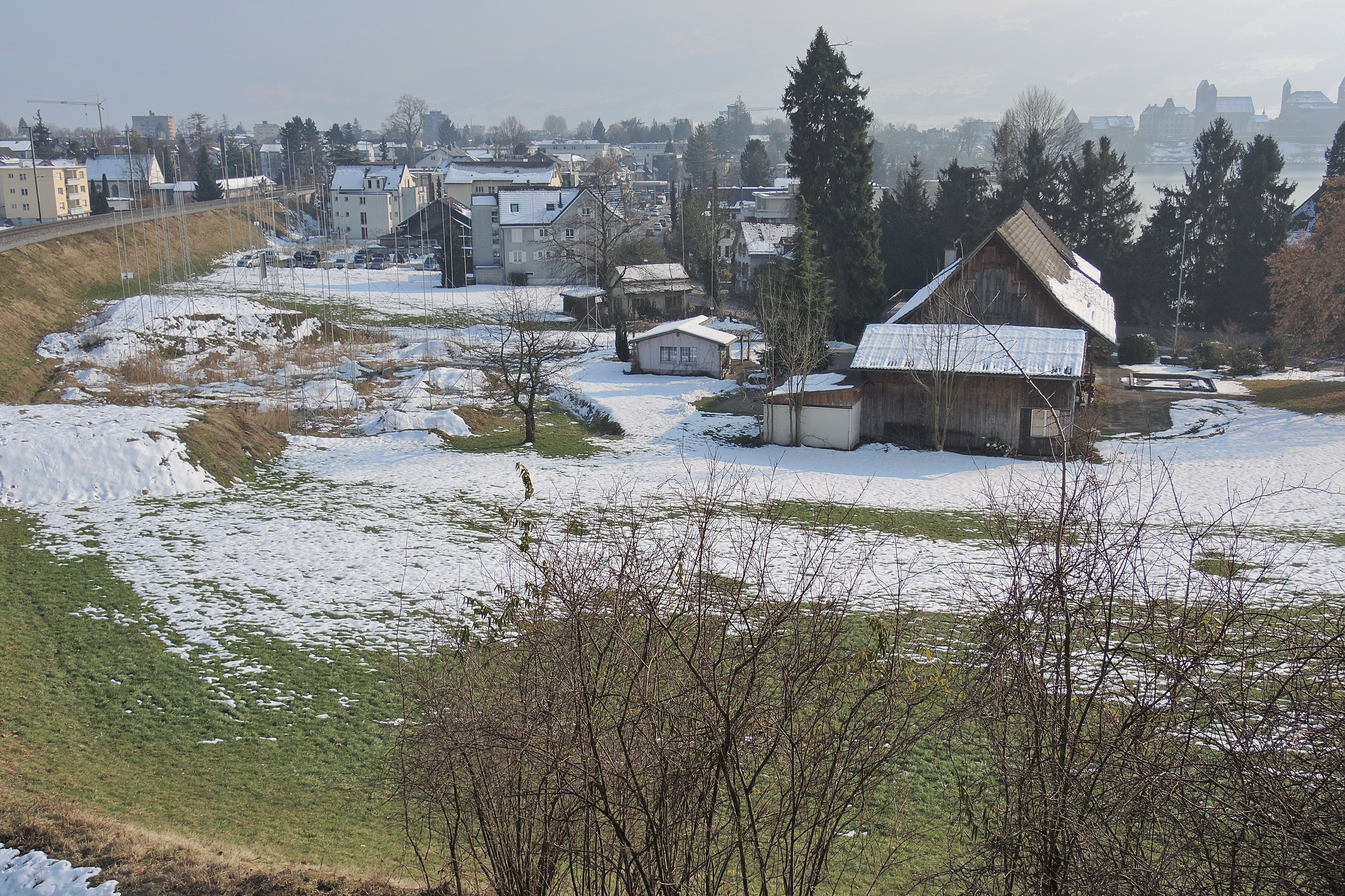 Seewiese site (former temple area) of the Roman vicus Centum Prata at Kempraten respectively Rapperswil (Switzerland)